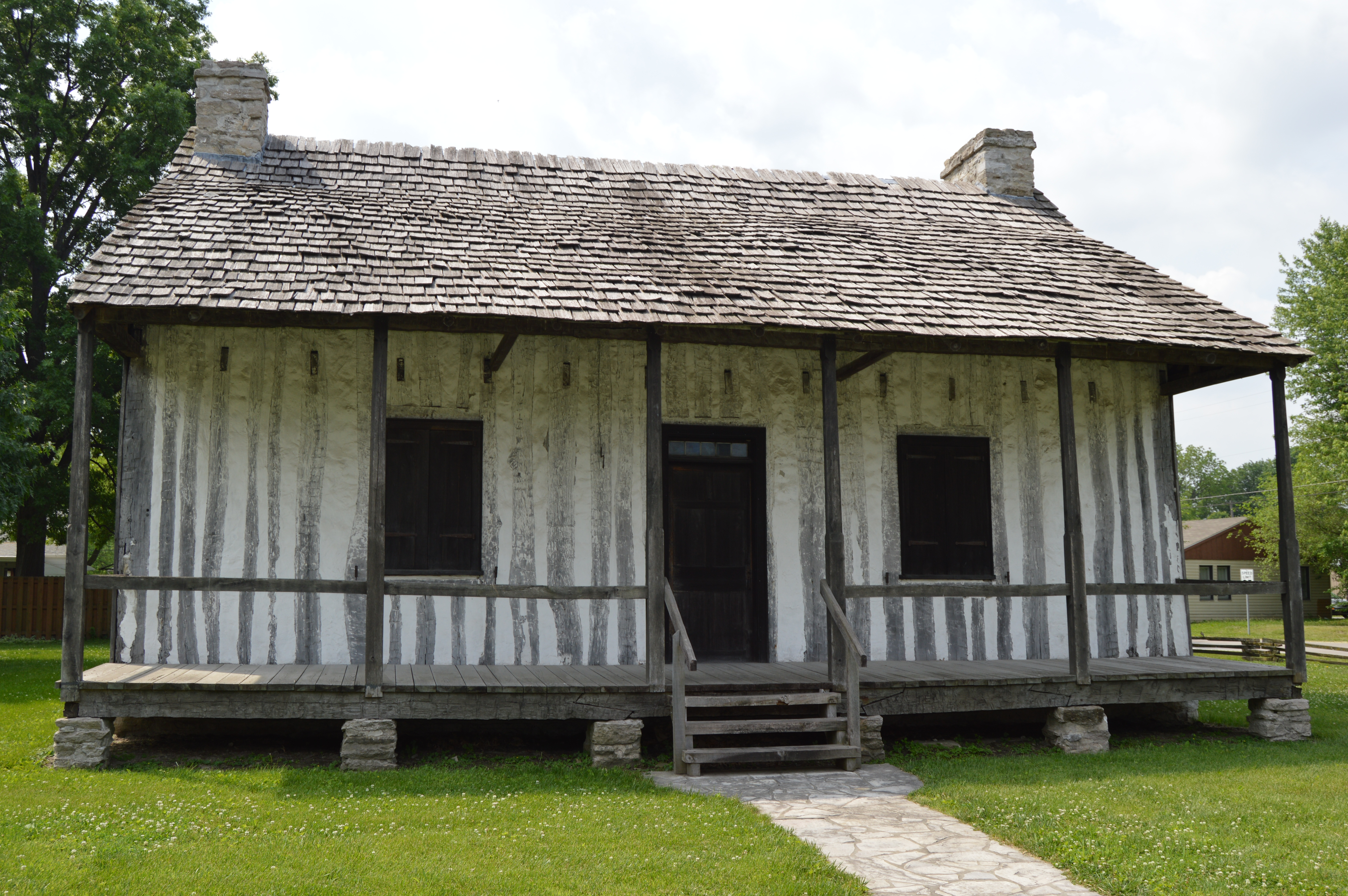 Front of the Pierre Martin House, located at the junction of Short and Water Streets in North Dupo, Illinois, United States. Built in 1790, it is listed on the National Register of Historic Places.